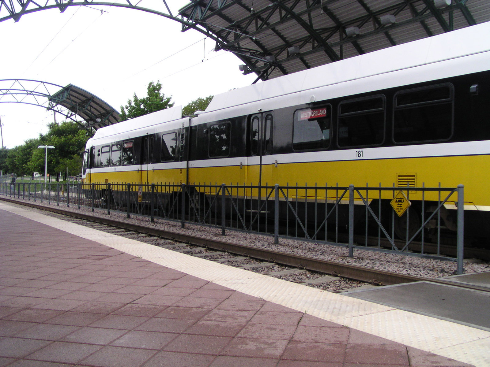 A southbound light rail train at Hampton Station, a station on the Dallas Area Rapid Transit's Red Line in the Oak Cliff neighborhood of Dallas, Texas (USA).